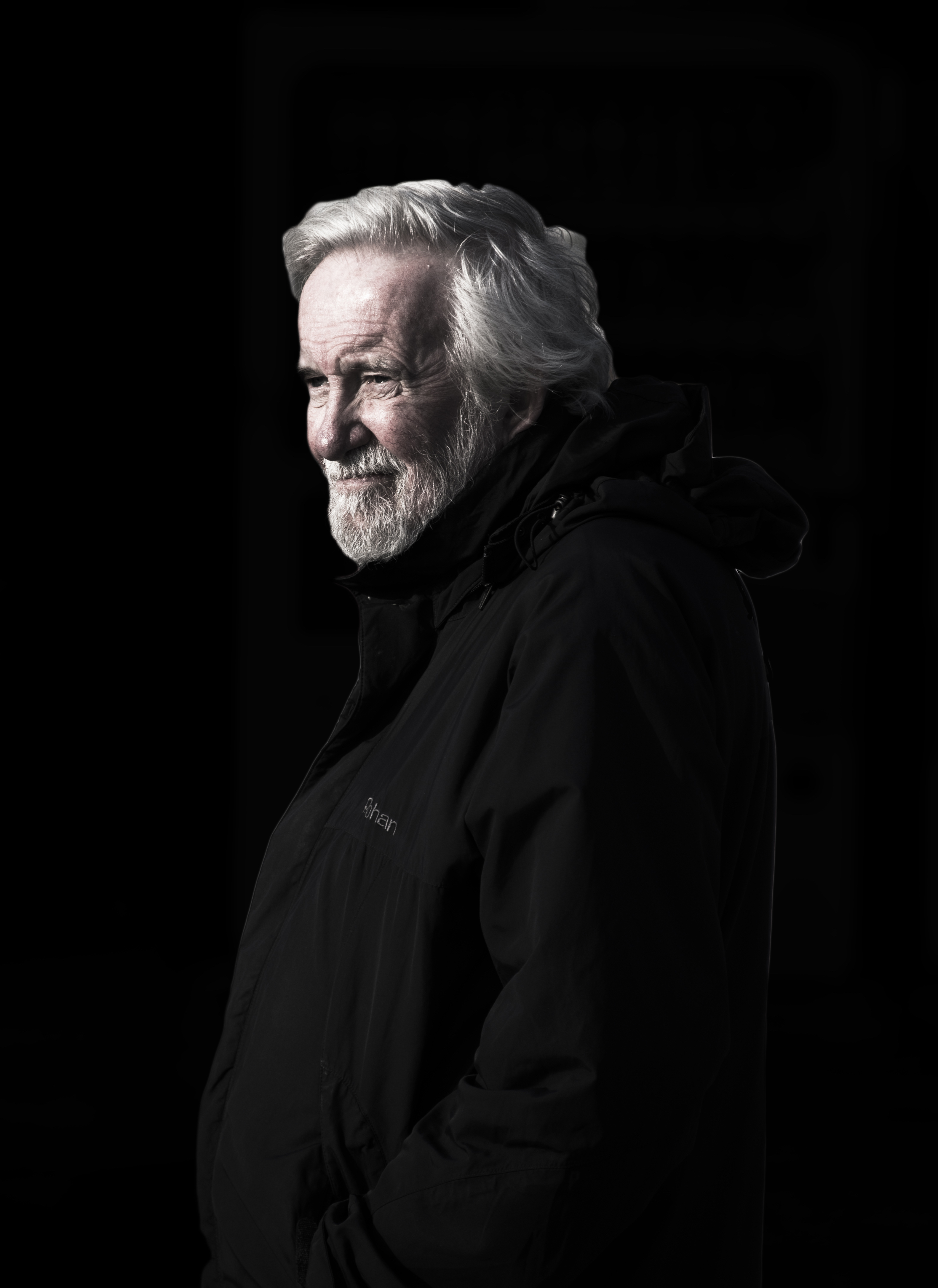 Prof Alastair V Campbell FRSE